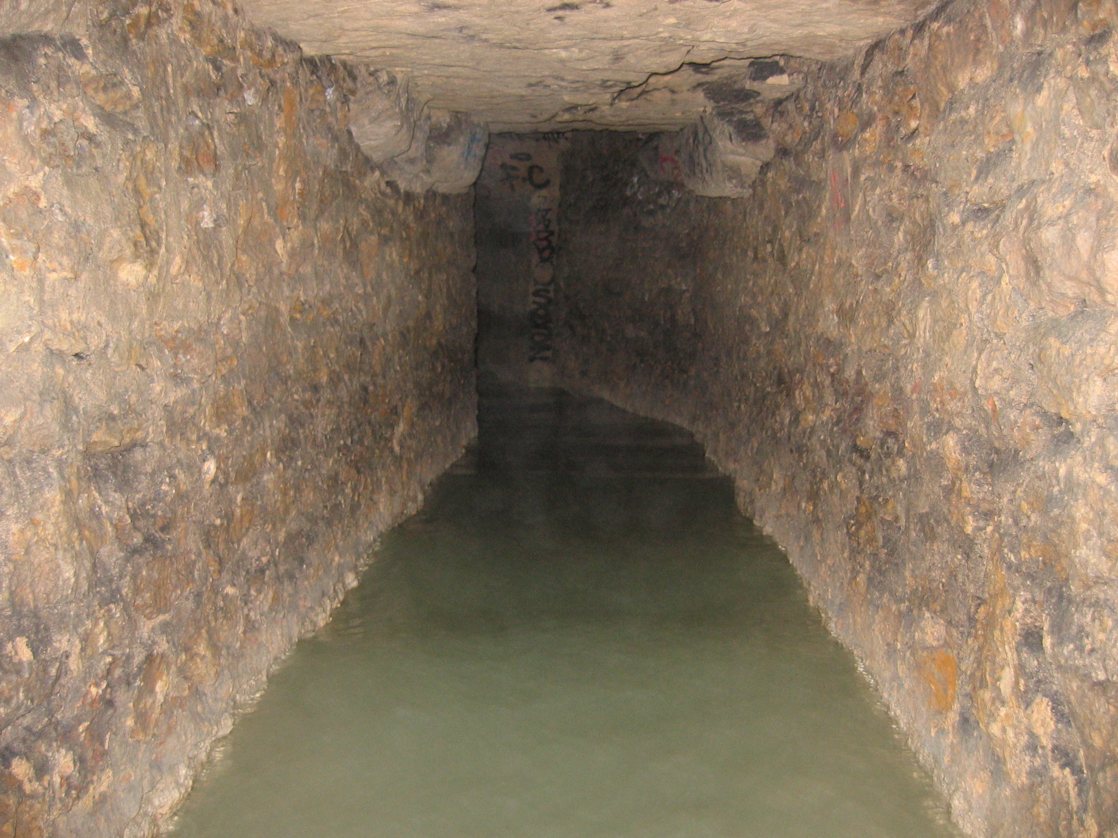 Paris (France): View of Rue de la Voie Verte (today rue du Père Corentin) at a partially flooded section.